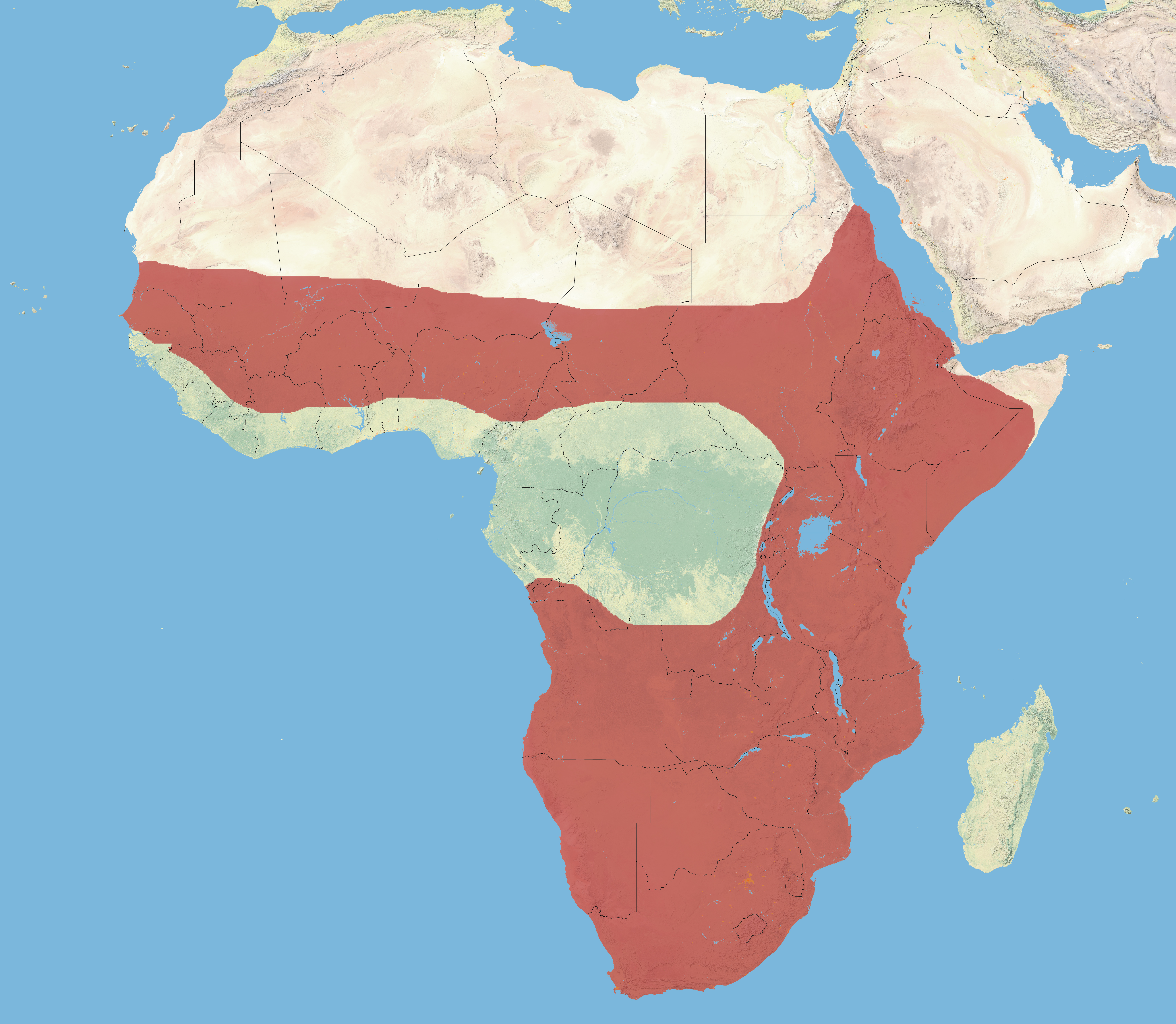 The Distribution of the Striped Polecat According to the IUCN